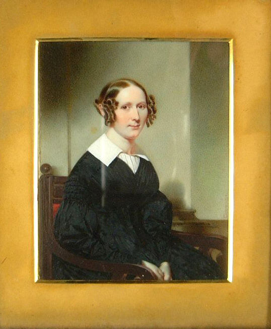 Mrs. Oswald John Cammann (Catherine Navarre Macomb) Artist: Thomas Seir Cummings (American (born England), Bath 1804–1894 Hackensack, New Jersey) Date: ca. 1843 Medium: Watercolor on ivory Dimensions: 4 3/16 x 3 5/16 in. (10.5 x 8.5 cm) Classification: Paintings Credit Line: Gift of Gloria Manney, 2006 The sitter was the daughter of John Navarre and Christina Livingston Macomb. She married in 1829.